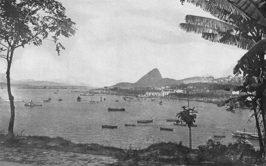 Rio de Janeiro's waterfront and the Morro de Castello from the Ilha das Cobras. Harriet Chalmers Adams, 1919.